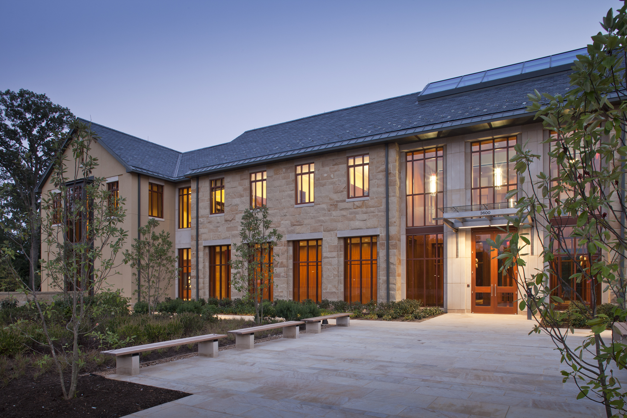 The Fred W. Smith National Library for the Study of George Washington is a resource for scholars, students, and all those interested in George Washington, colonial America, and the Revolutionary and founding eras.